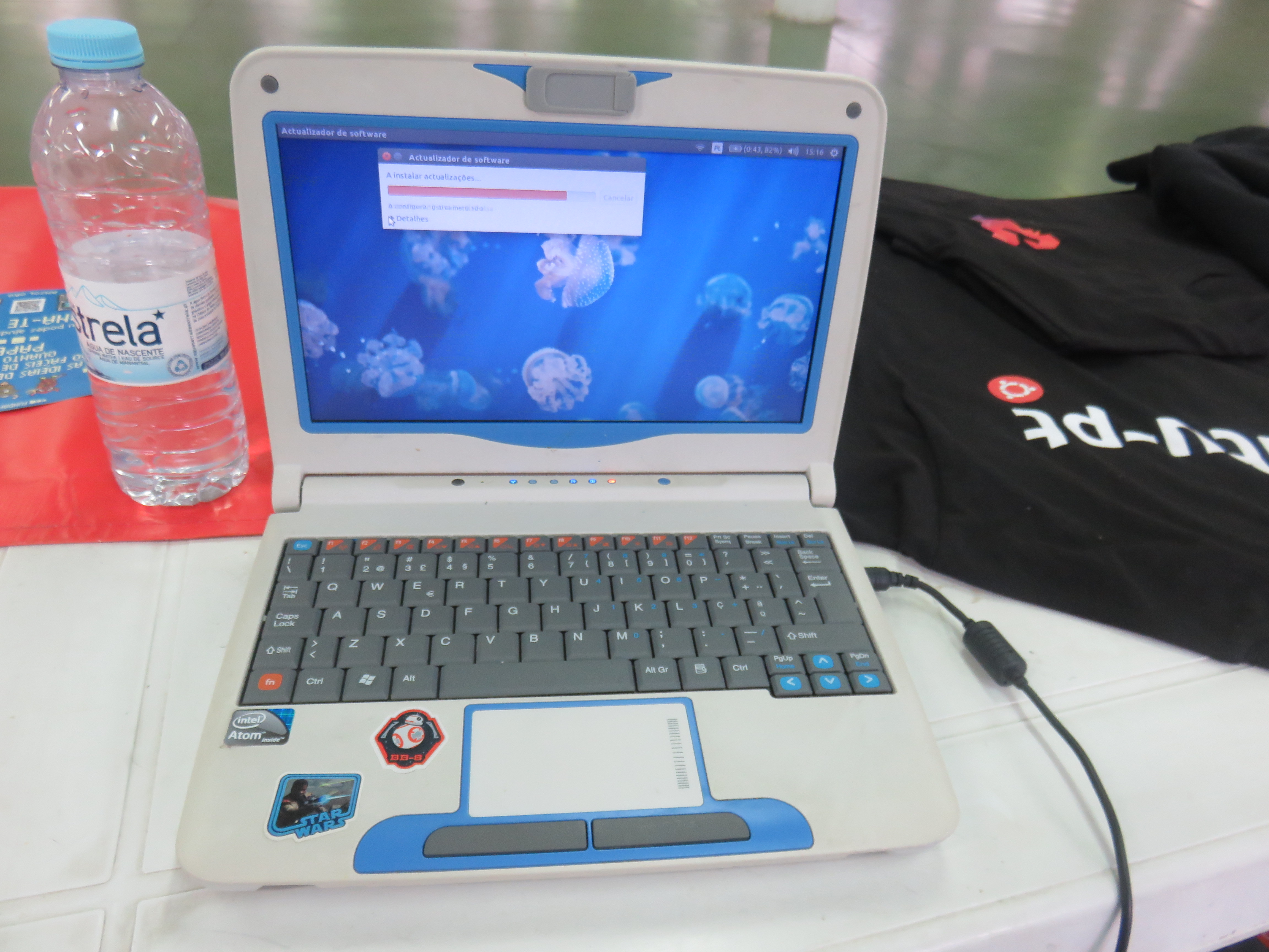 Wikimedia Portugal@Festa do Software Livre Moita 2018, supported by Wikimedia CH. More info about this event: Event site - CM Moita - ANSOL